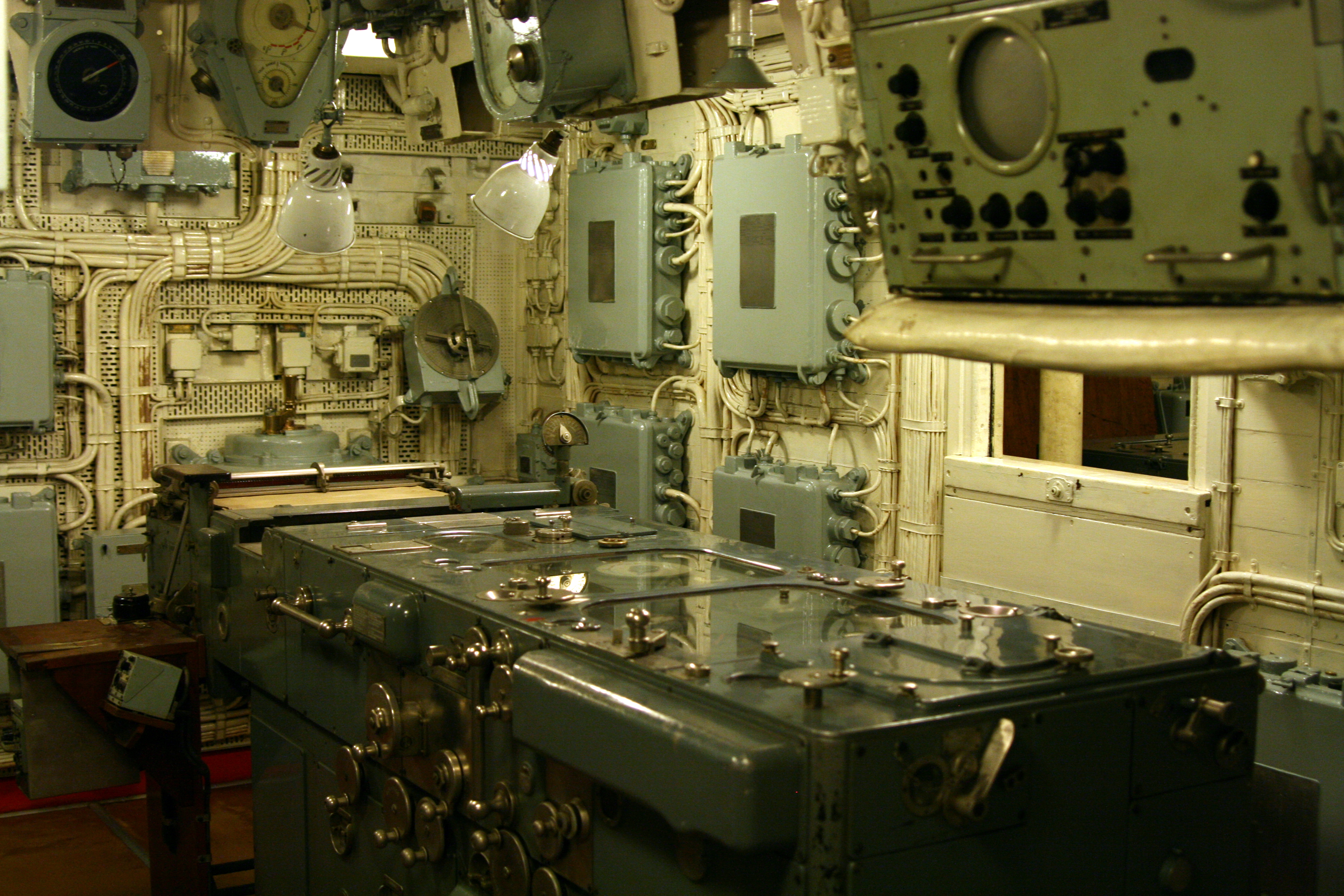 6 inch gun transmitting station on HMS Belfast. THe main object is the "computer" for calculating elevation & bearing.